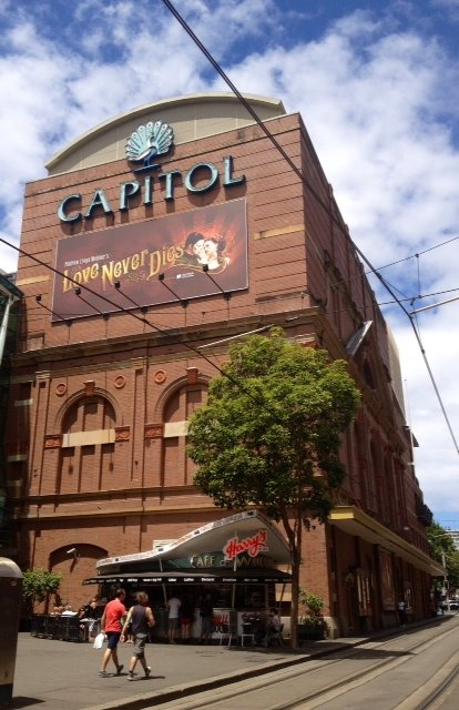 Capitol Theatre in Sydney, with "Love Never Dies" playing